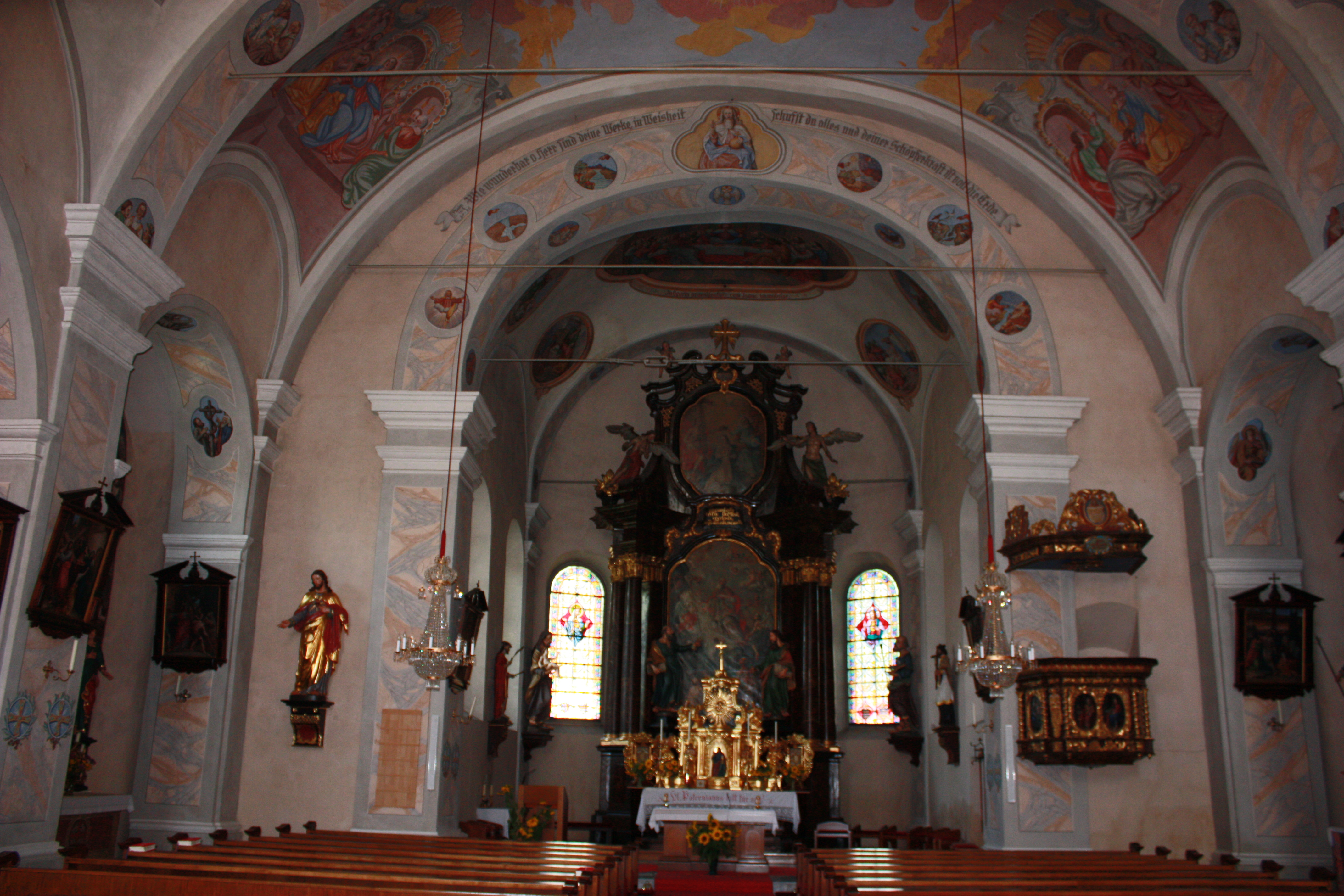 Parish church Saint Paternianus - interior Locality: Paternion Community:Paternion